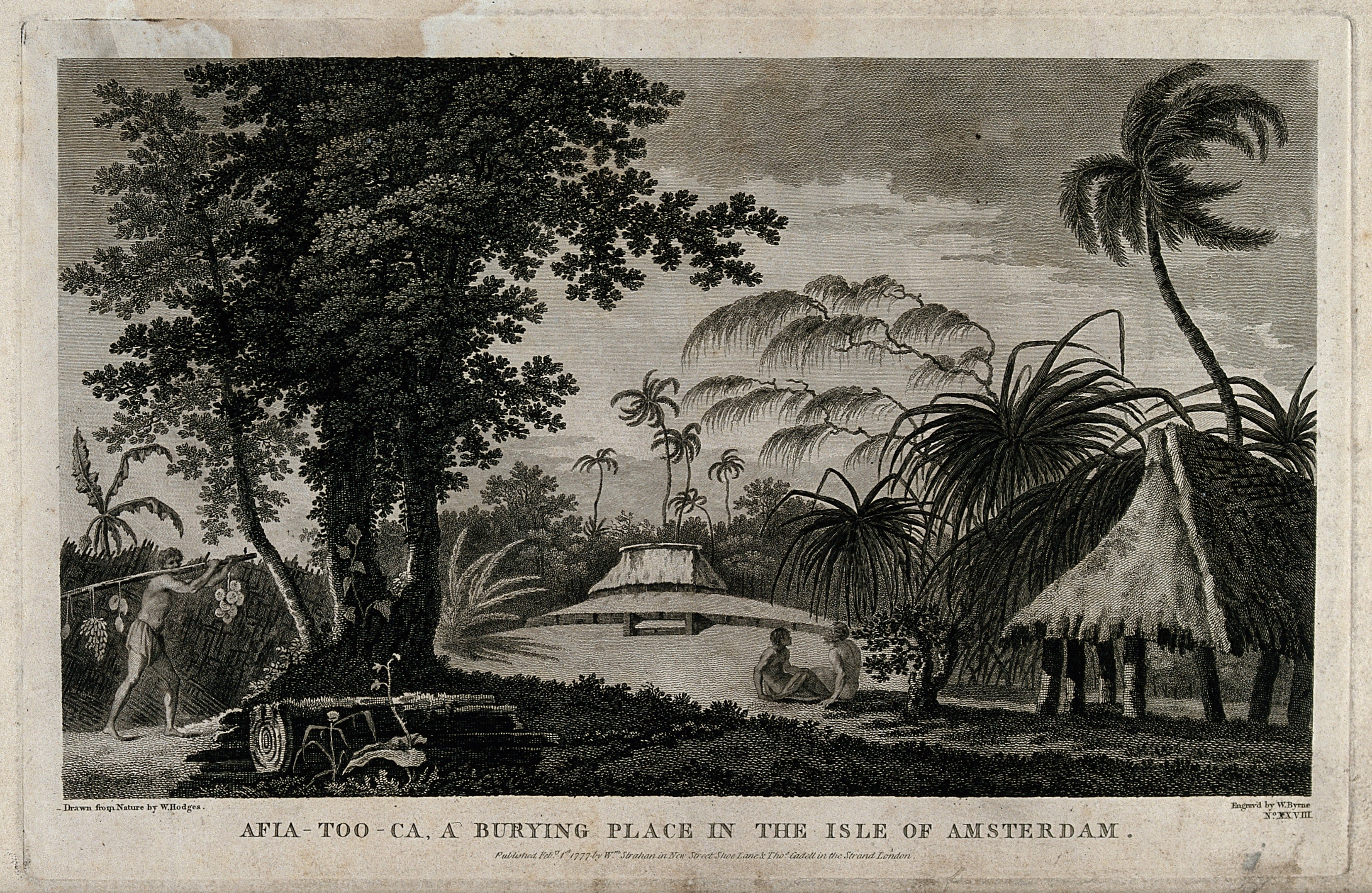 Afia-Too-Ca, a burying place on the Island of Amsterdam, Indian Ocean Iconographic Collections Keywords: Graveyard; Tribal; Traditional; Indian Ocean Islands; William Hodges; William Byrne; Grave